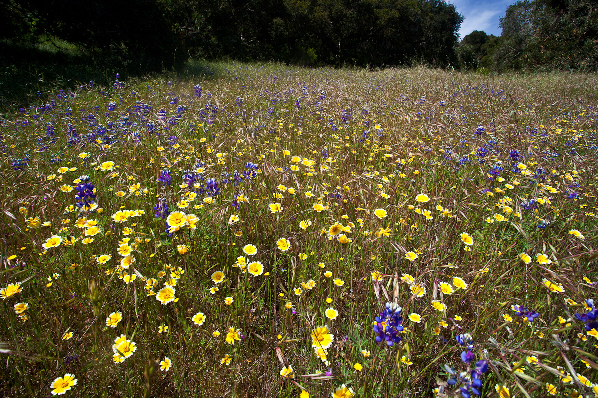 The Fort Ord National Monument holds some of the last undeveloped natural wildlands on the Monterey Peninsula. Located on the former Fort Ord military base, the Bureau of Land Management (BLM) protects and manages 35 species of rare plants and animals along with their native coastal habitats. Habitat preservation and conservation are primary missions for the Fort Ord Public Lands but there are also more than 86 miles of trails for the public to explore on foot, bike or horseback. For more information please visit: Photo: Bob Wick, BLM California